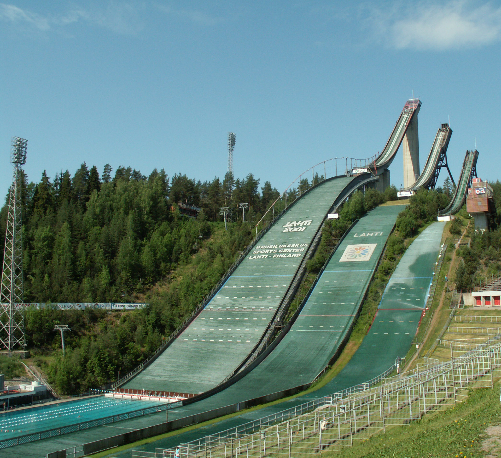 Ski jumping hill at Lahti, Finland.